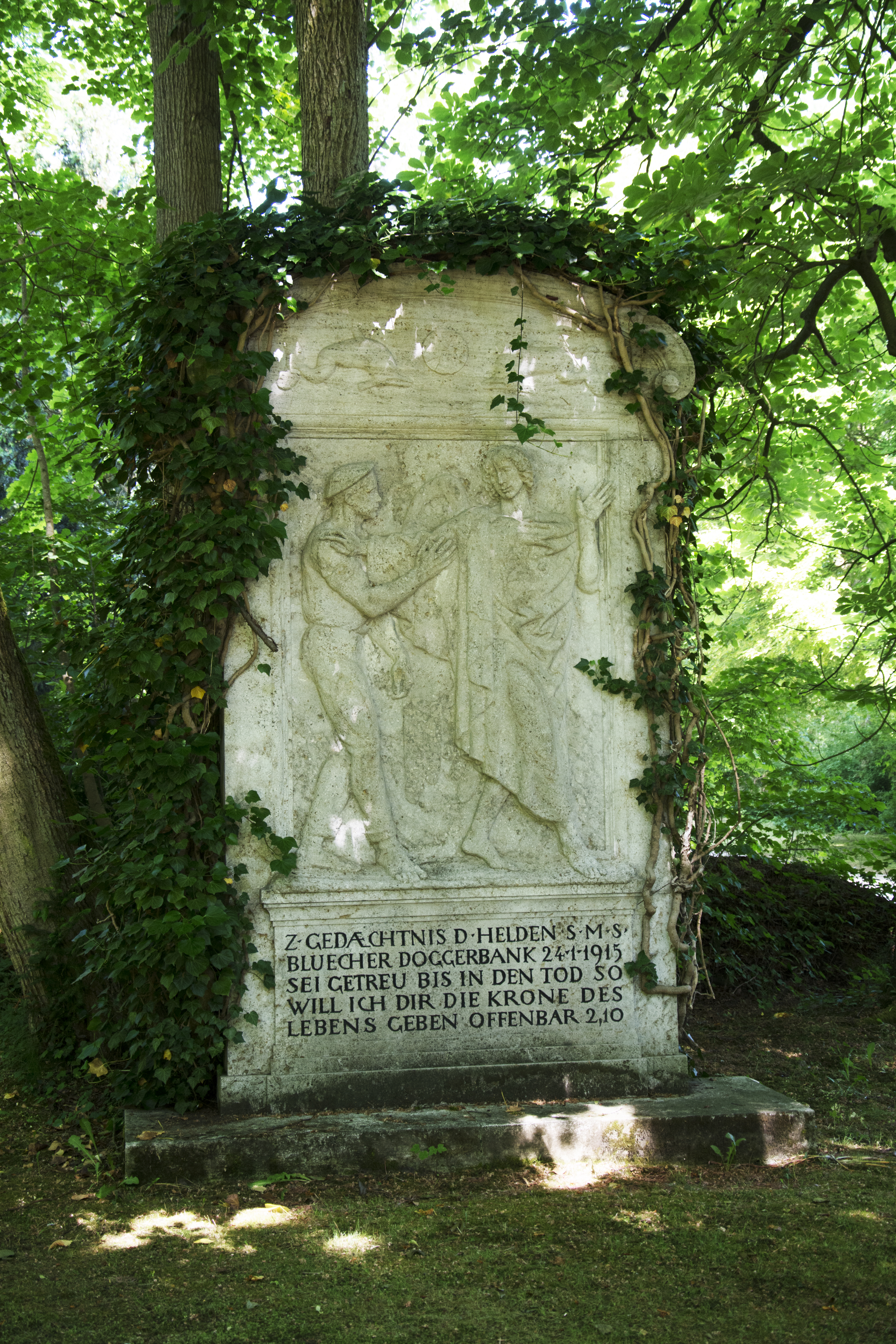 Remembrance stele for casualties of sinking of SMS Bluecher, Nordfriedhof, Kiel, Germany